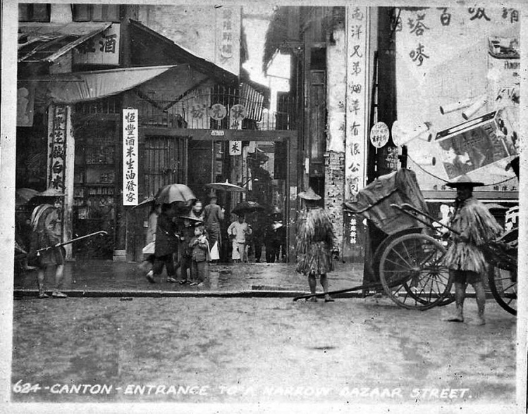 Entrance to a narrow bazaar street in Canton, China.